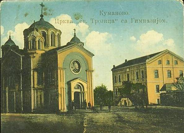 Holy Trinity church in Kumanovo, Macedonia